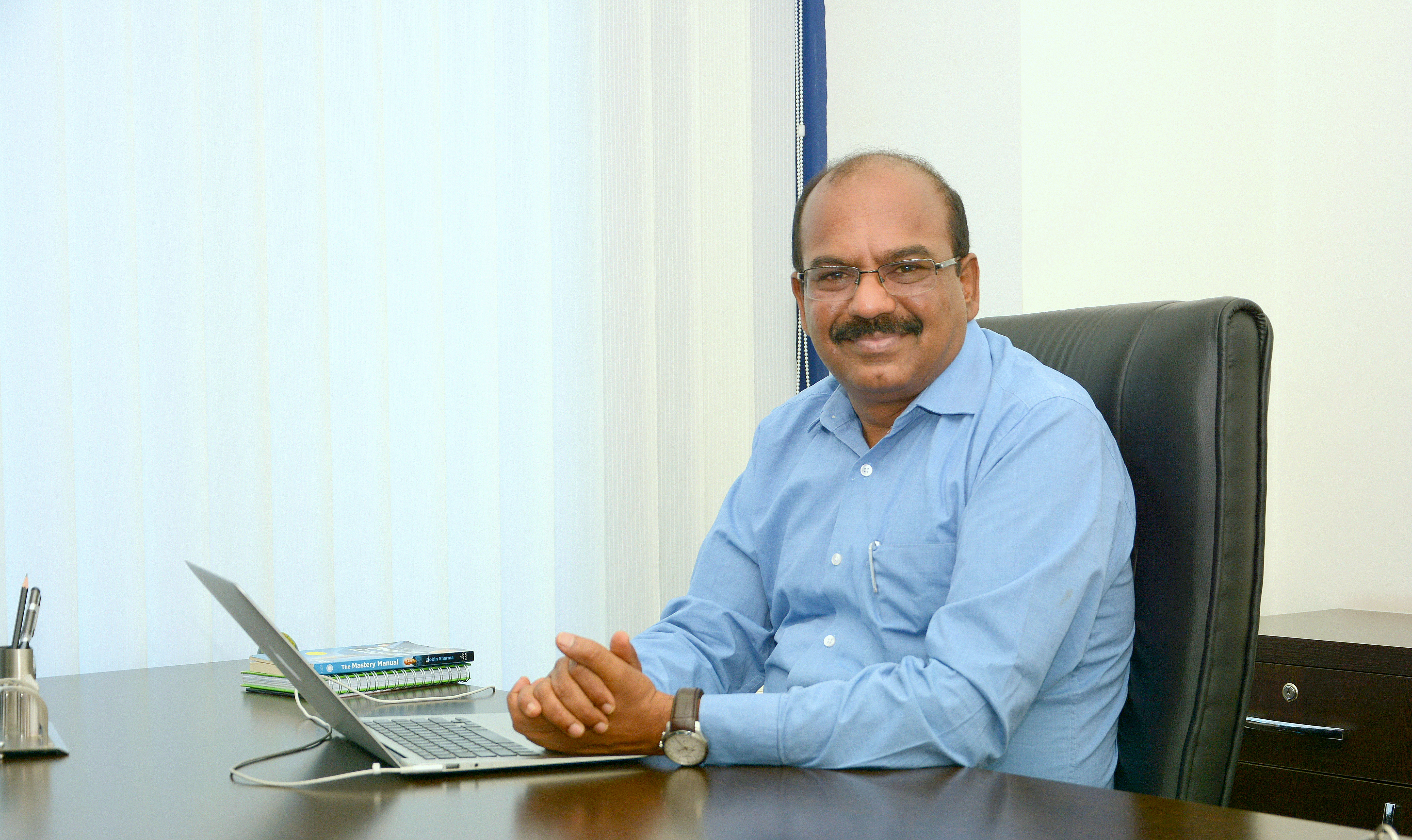 Soundararajan Profile 1